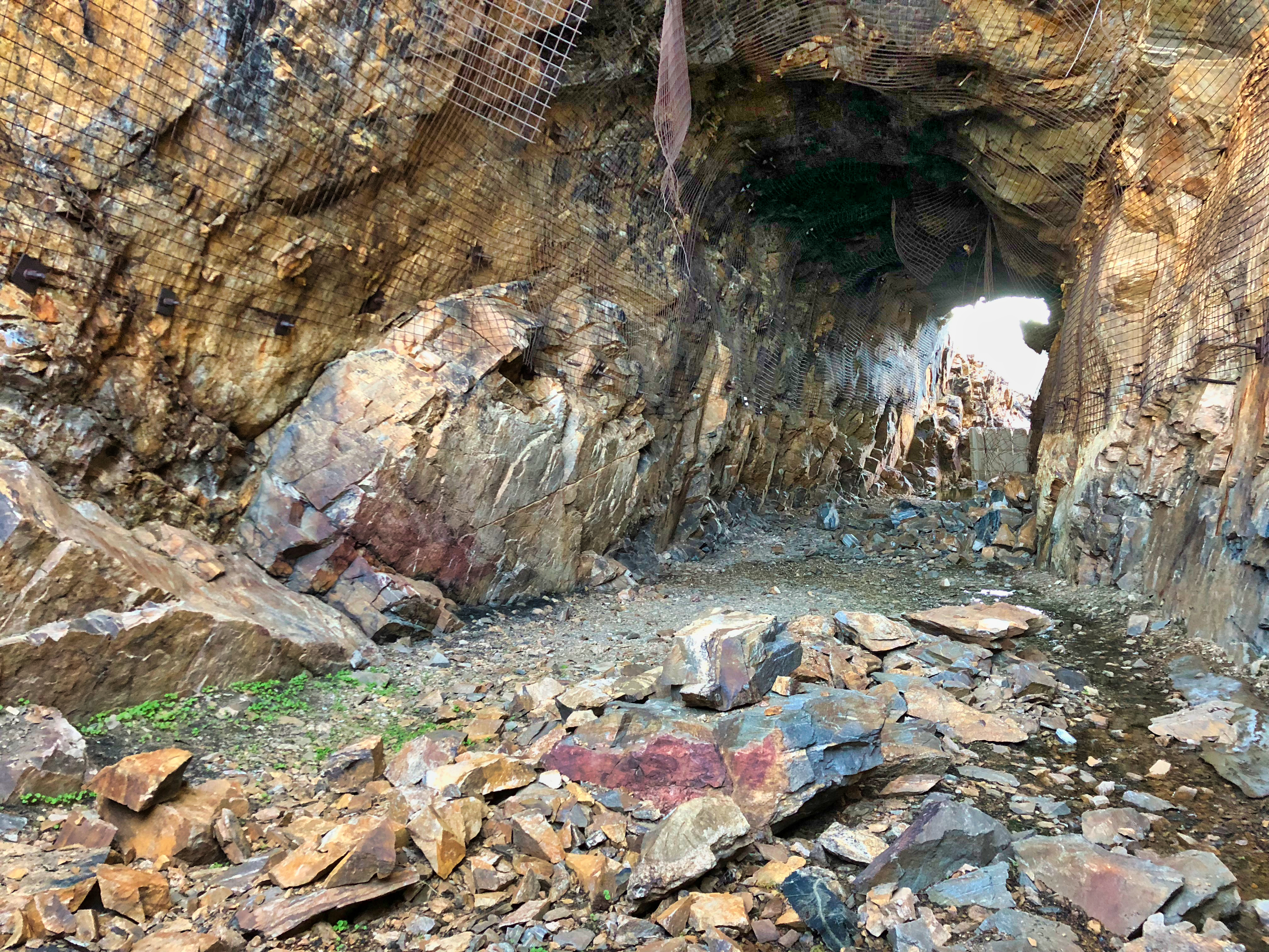 Needle's Eye Tunnel on Rollins Pass - June 2018